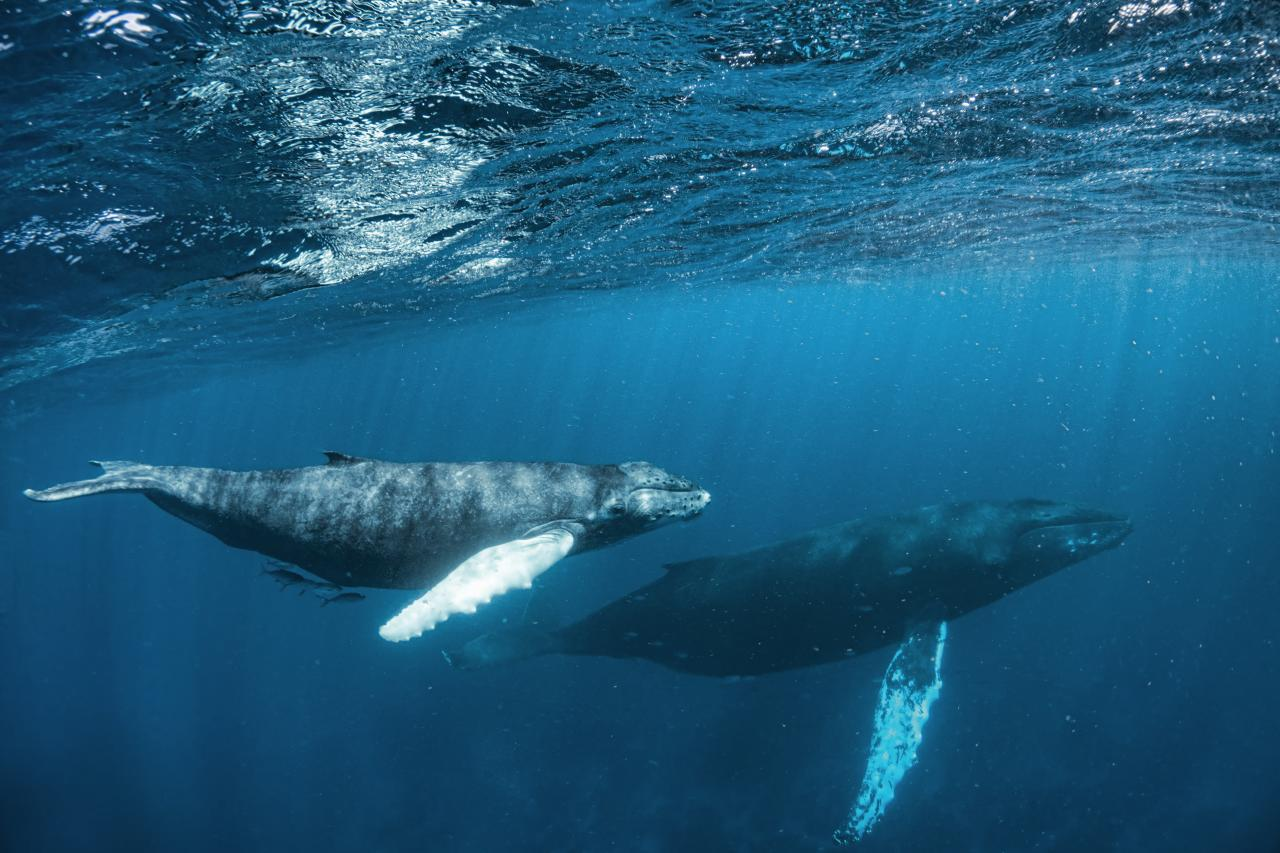 Humpback Whales